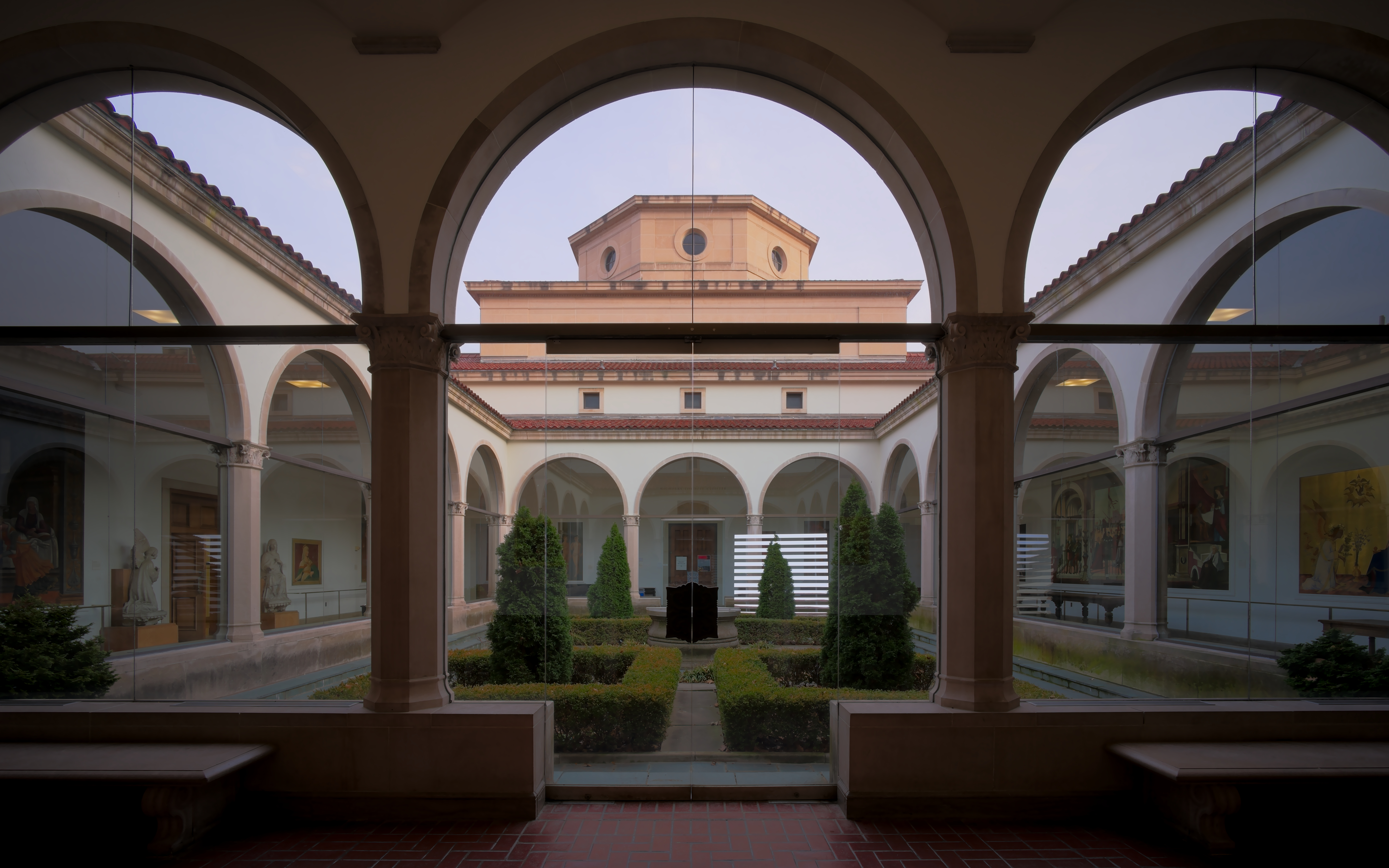 The Frick Fine Arts Building in the University of Pittsburgh is a landmark building that houses a library and a few departments of the university.